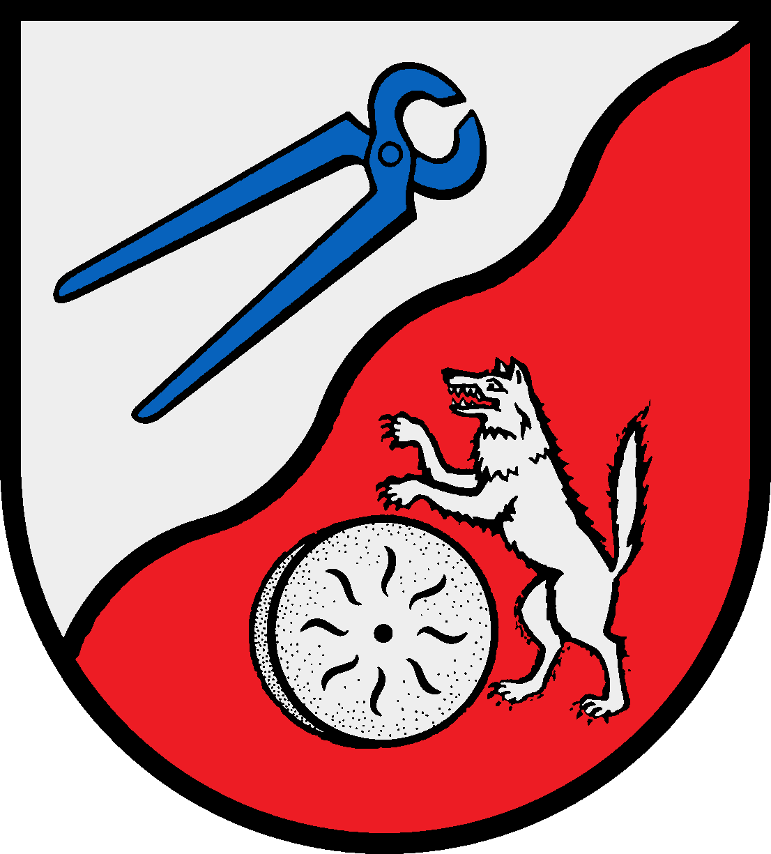 Coat of arms of the municipality Tangstedt in Schleswig-Holstein, Germany.